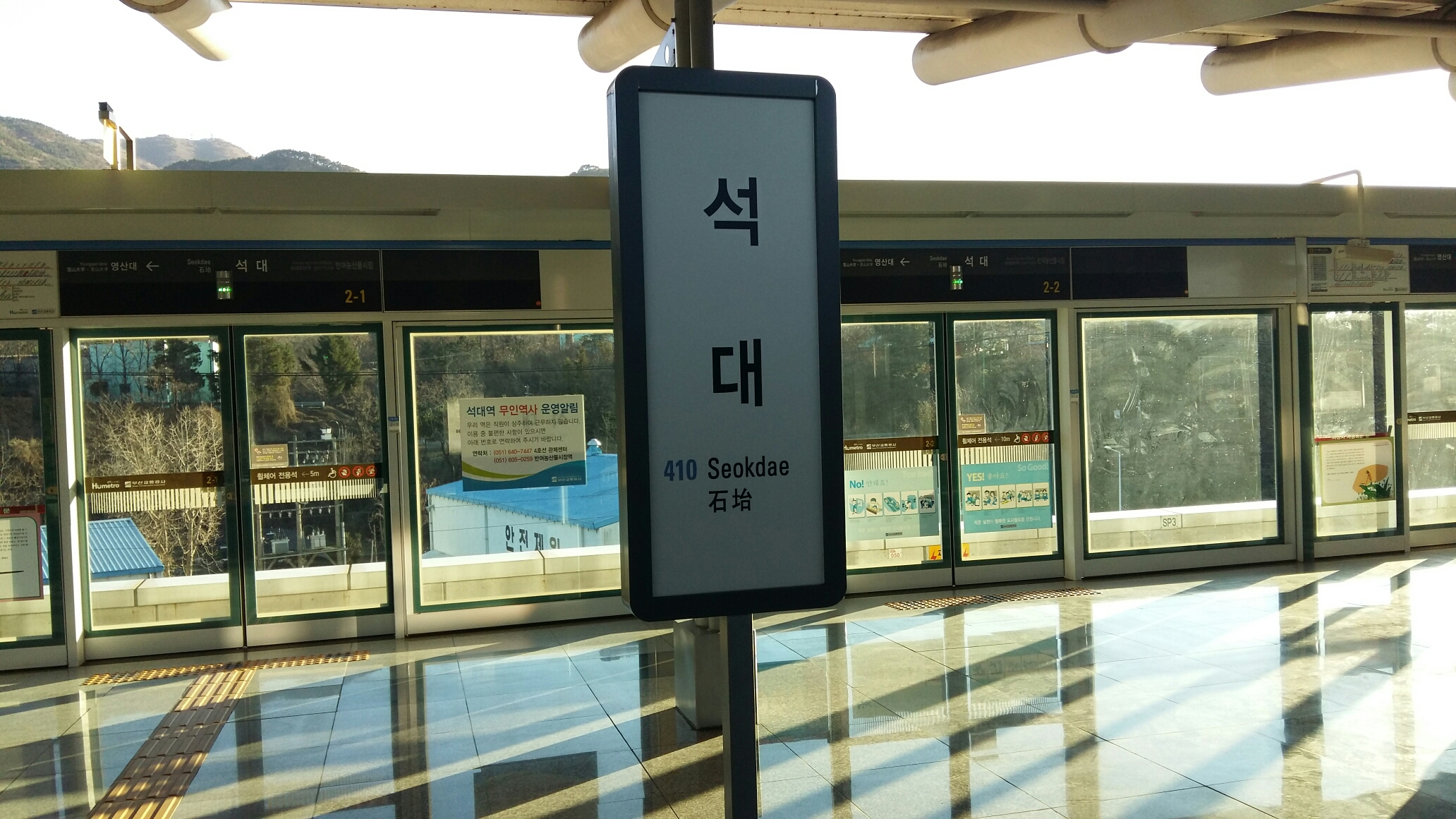 Seokdae Station.